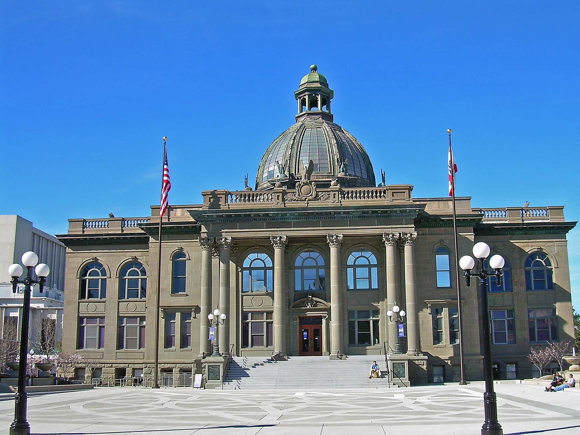 A view of the San Mateo County History Museum. This building used to be the San Mateo County Courthouse and is a historic building.